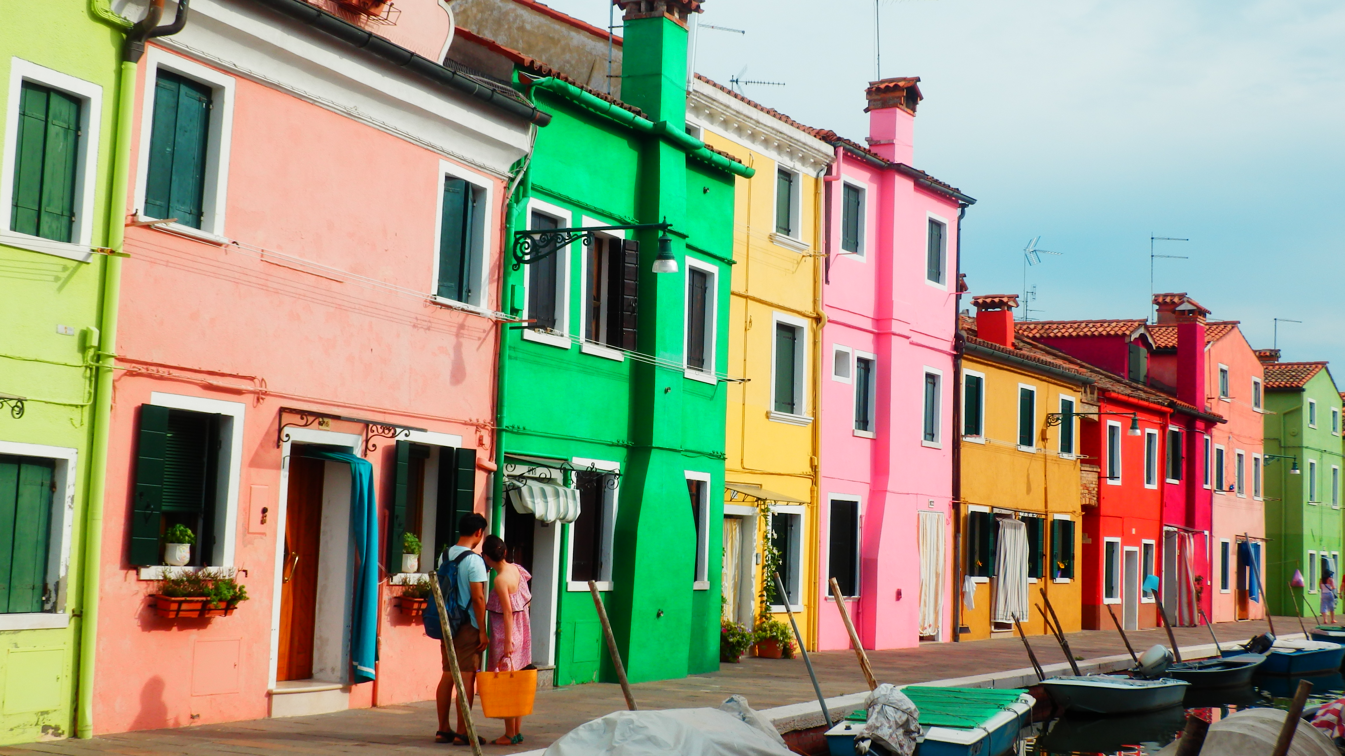 Venice, Italy